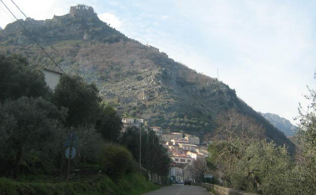 Panoramic view of Galdo degli Alburni with the castle of Sicignano on the top of mountain